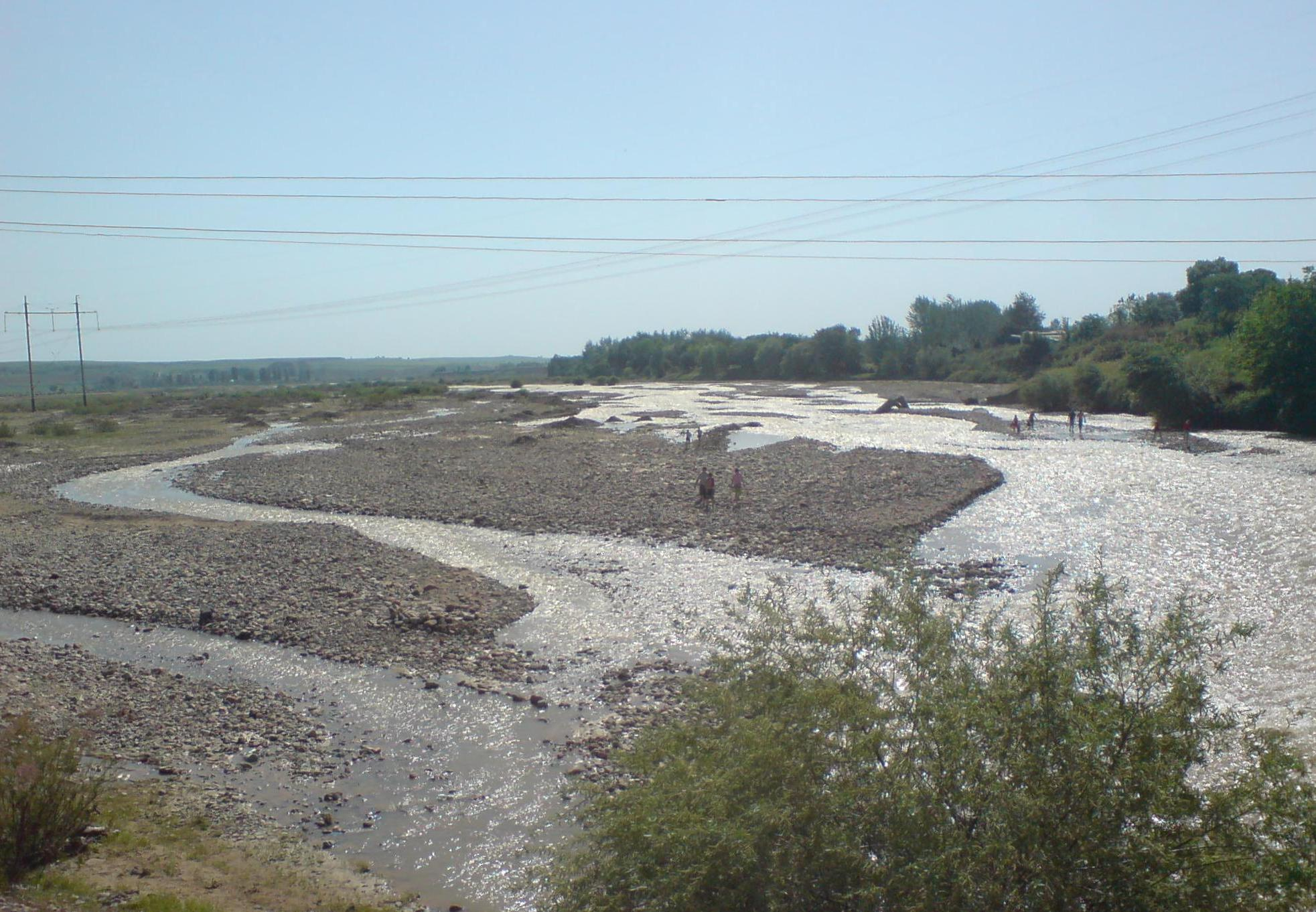 Qizilsoy river in Krasnogorsk city, Tashkent region, Uzbekistan